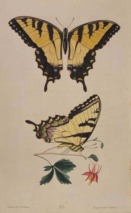 Papilio turnus (Papilio glaucus)